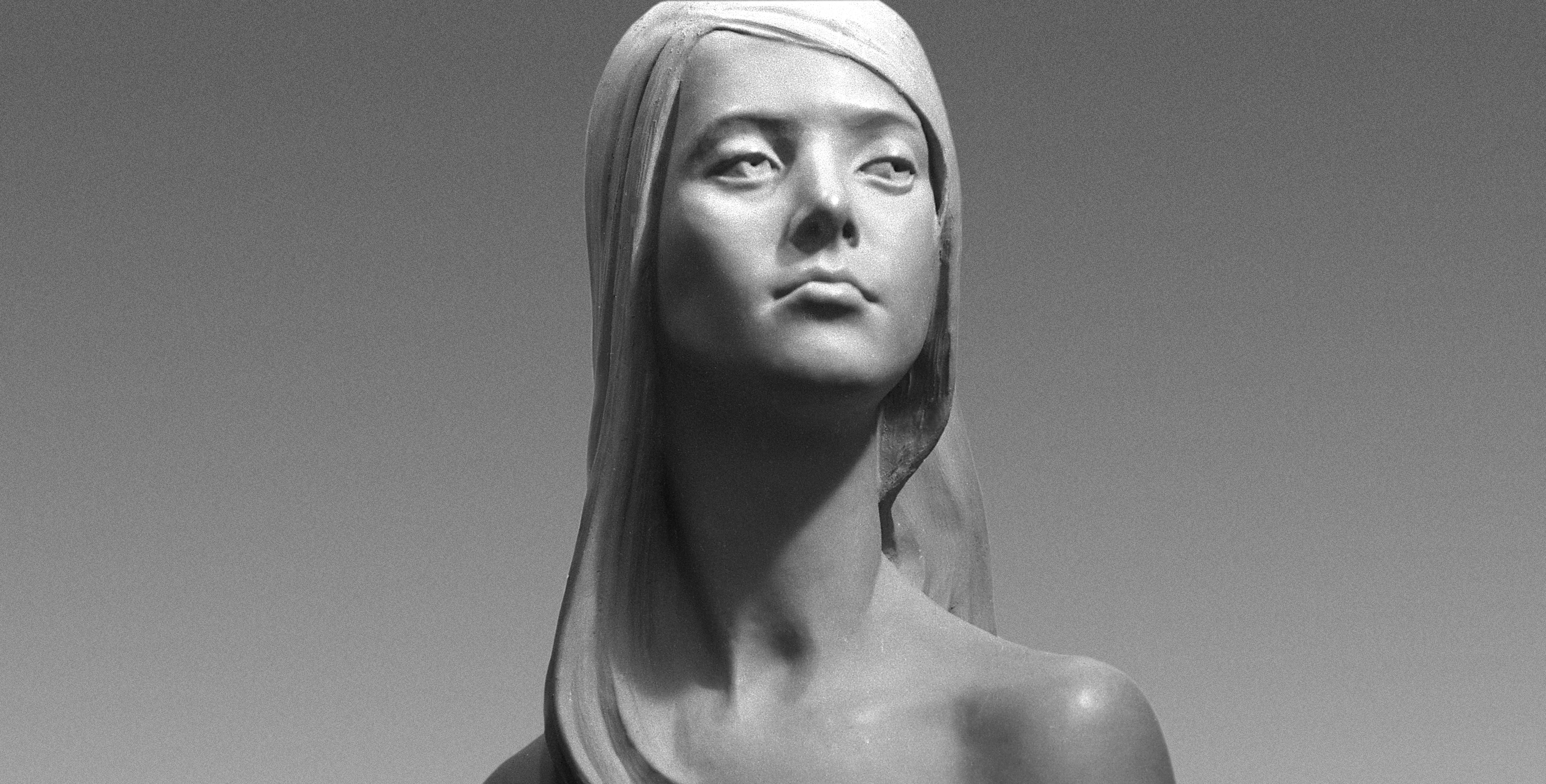 Bust of Catherine, created in 1959 by Jacques Le Nantec. Terra cotta.